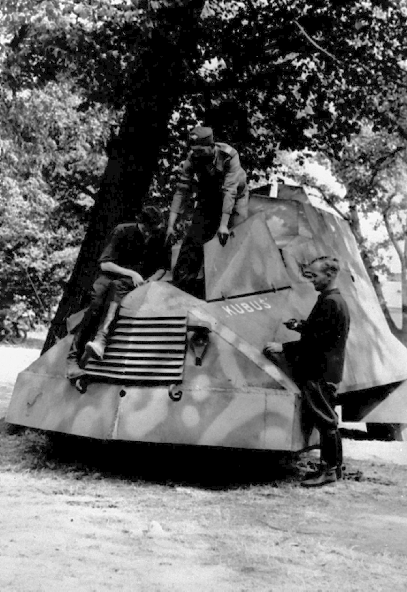 WarsawUprising: Kubuś the Polish WWII armored car, made by the Home Army during the Warsaw Uprising. A single copy was built by insurgents from "Krybar" Group, on the chassis of a Chevrolet 157 van. It took part in the attack on Warsaw University.